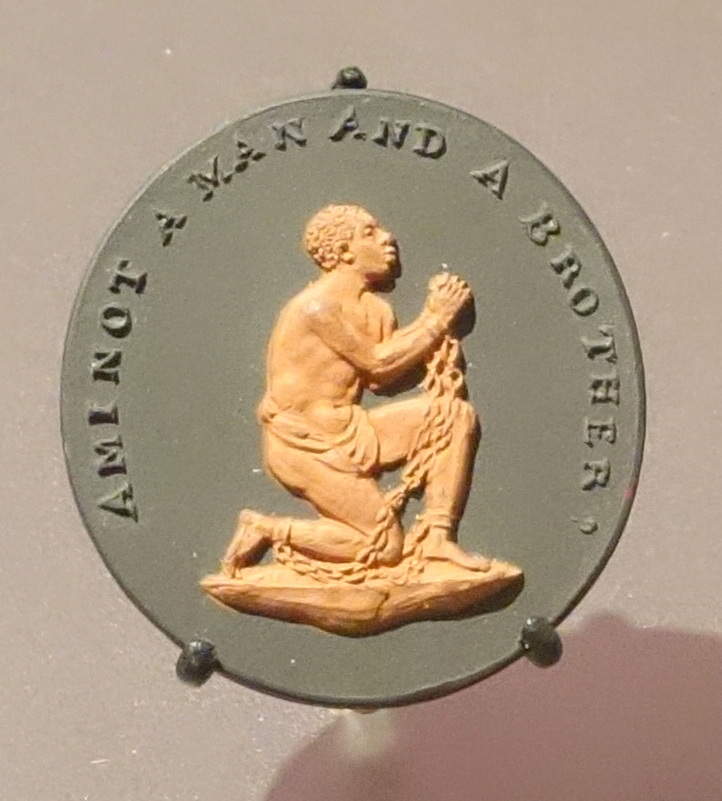 Exhibit in the Brooklyn Museum - Brooklyn, New York, USA. This artwork is in the public domain because the artist died more than 70 years ago.